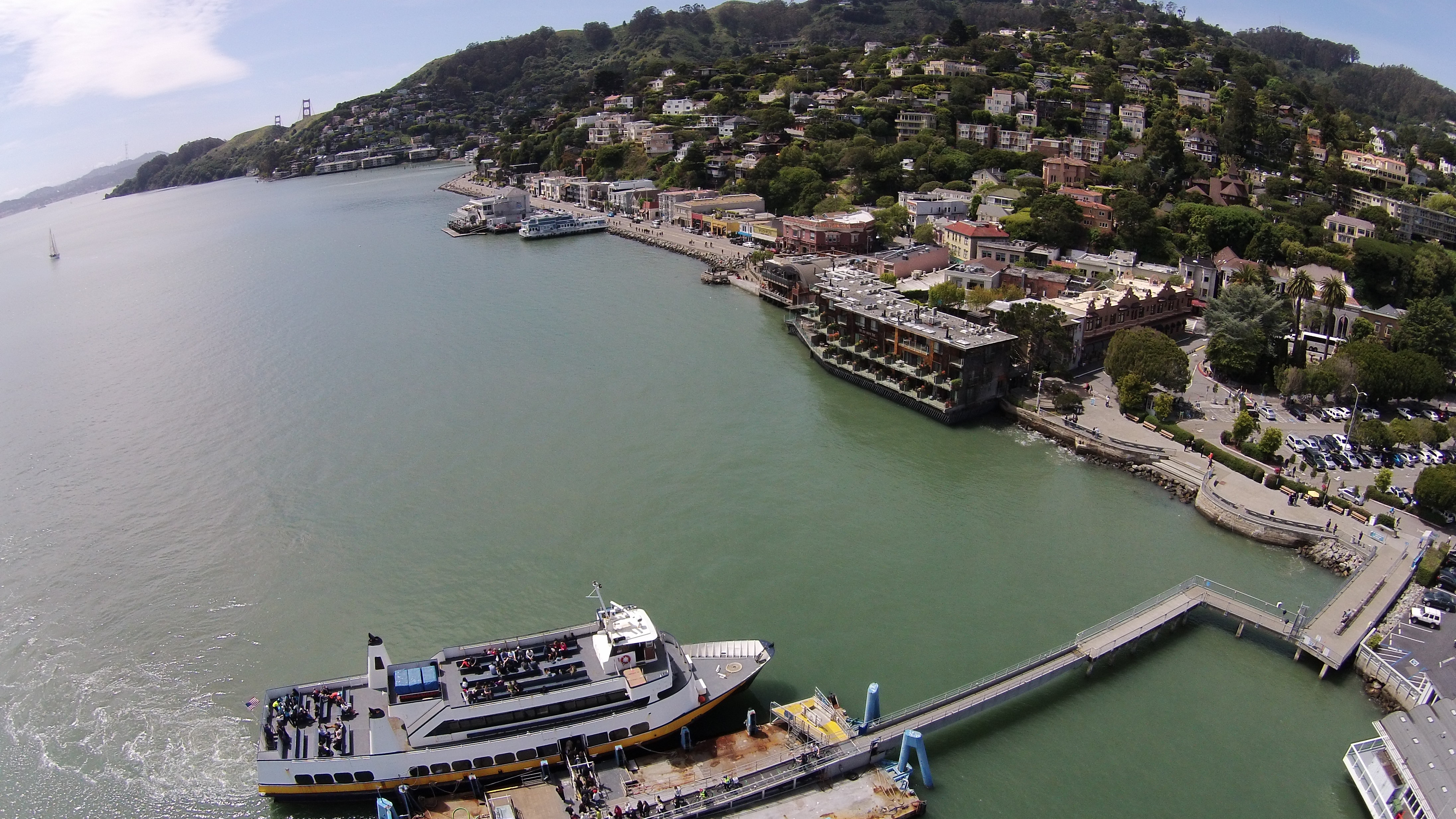 Aerial view of ferry docking at Sausalito